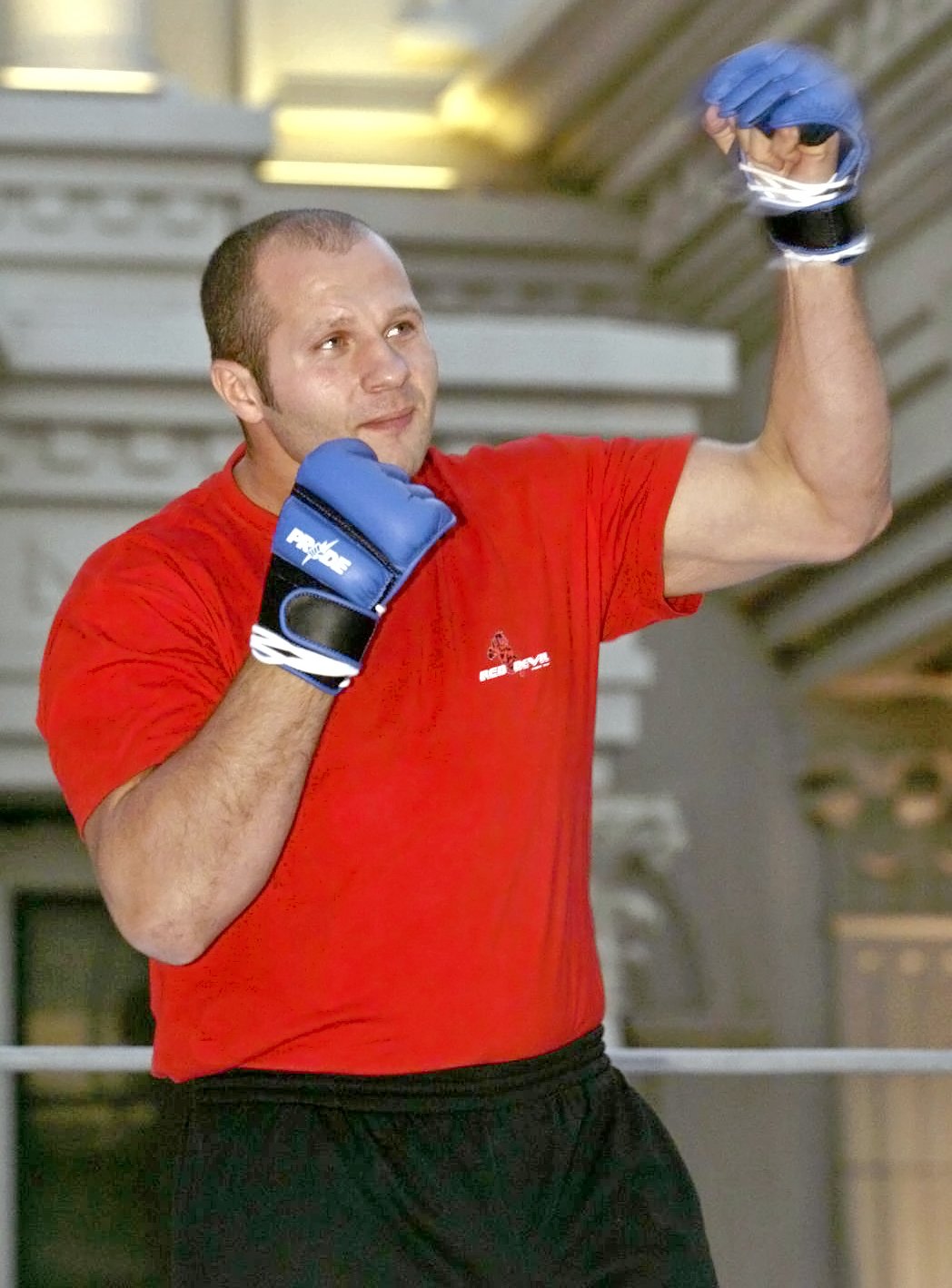 Fedor Emelianenko during a 10-minute workout at the Caesars Palace's Roman Plaza on October 19, 2006.